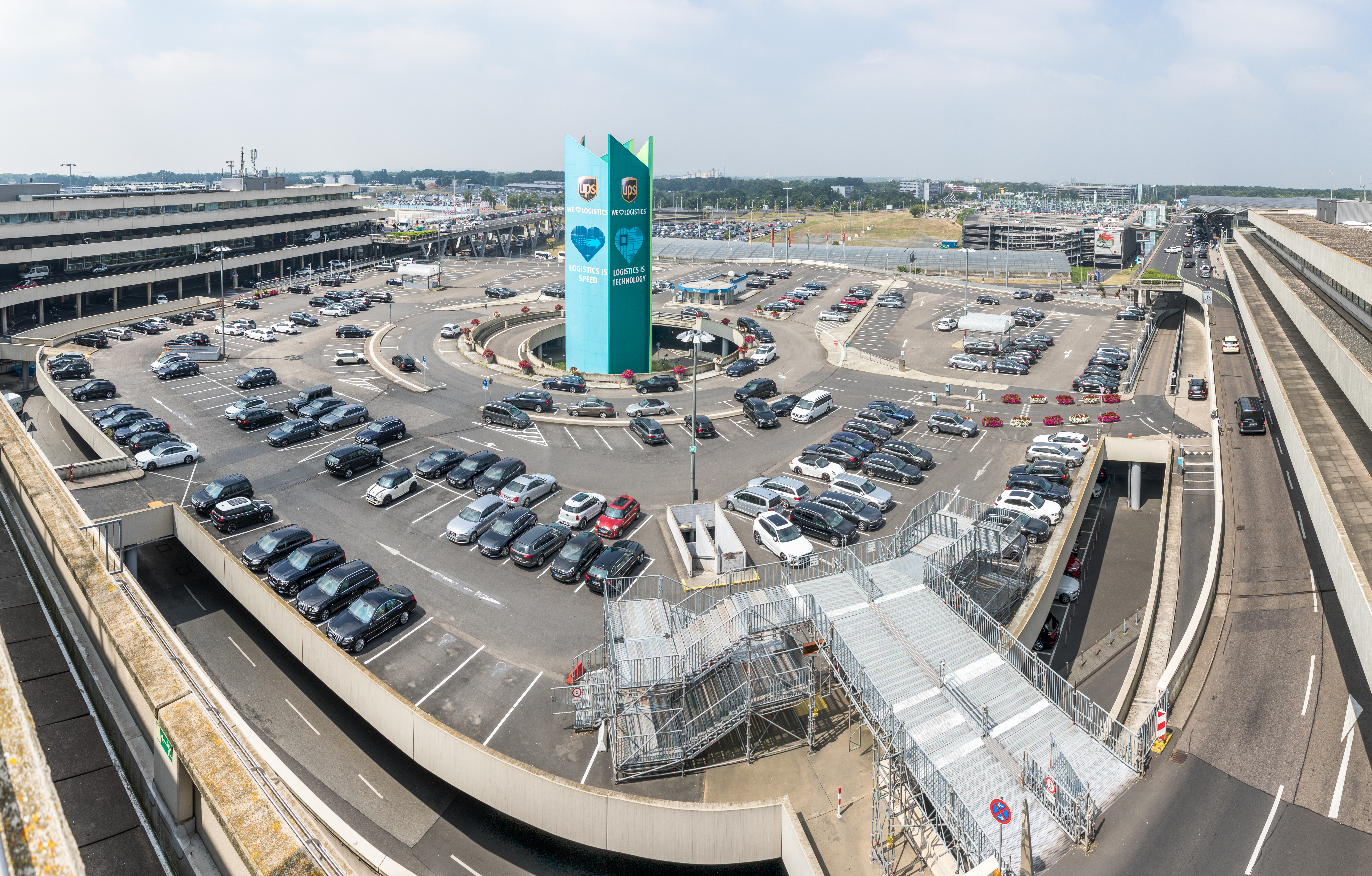 Cologne Bonn Airport - multi-storey car park P1 at terminal 1